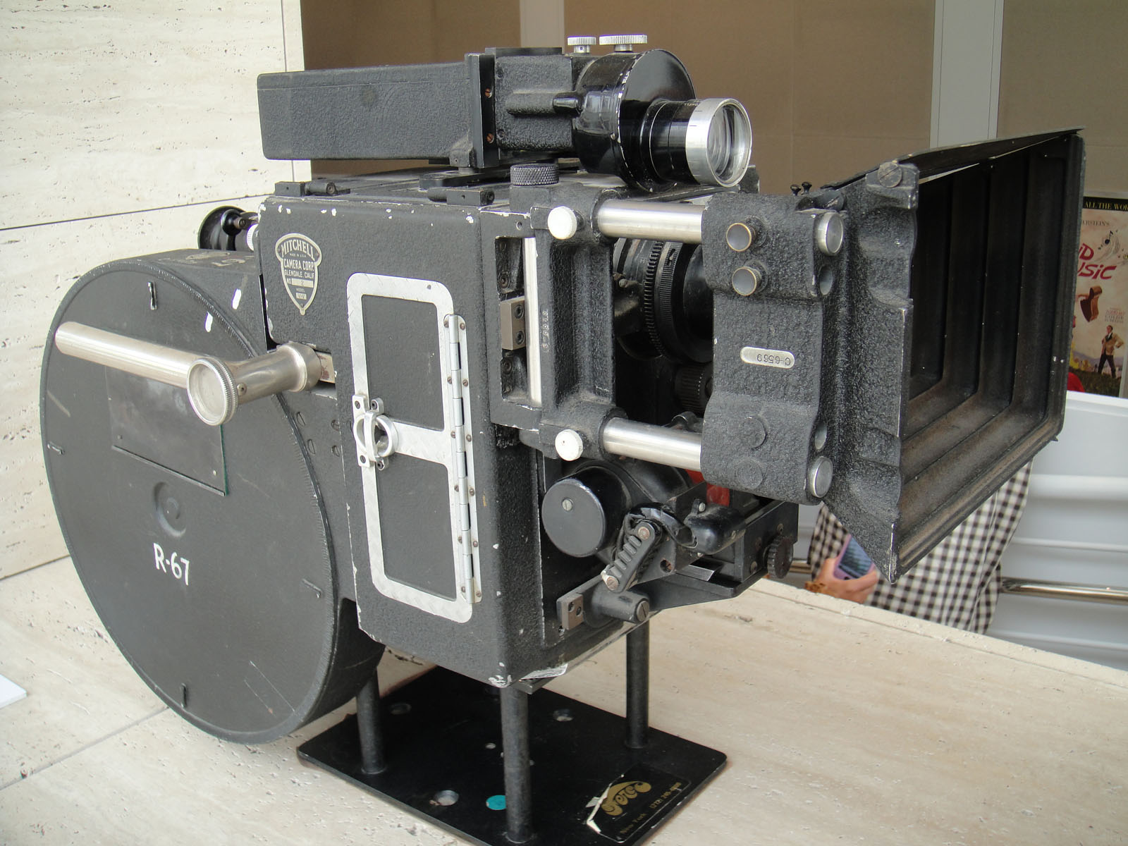 Mitchell VistaVision Model V-V 35mm motion picture camera circa 1953/54 at the Debbie Reynolds Auction Breaks Up Historic Hollywood Collection (The Paley Center for Media in Beverly Hills, Los Angeles, CA, USA).